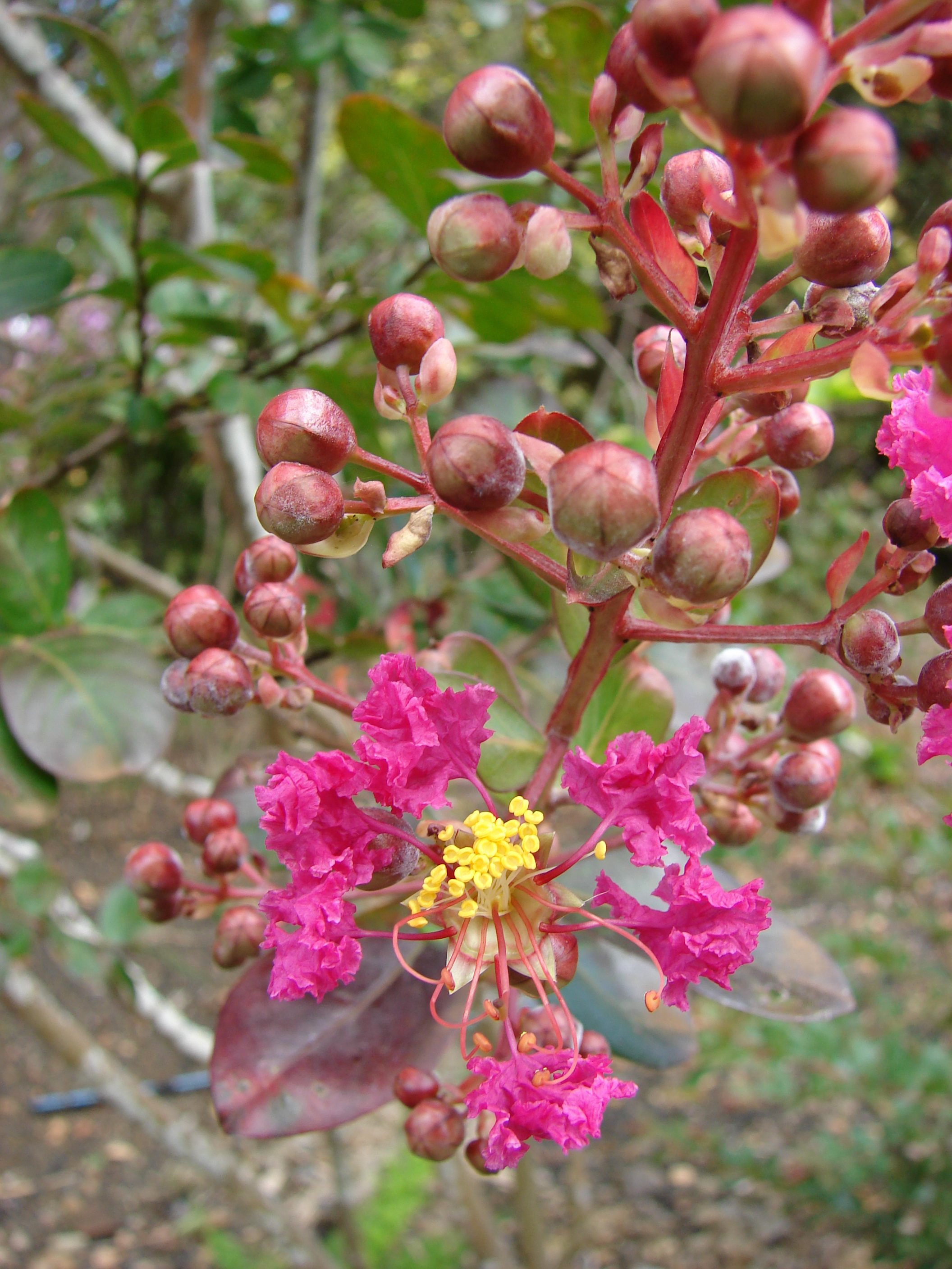 Lagerstroemia indica (flowers). Location: Maui, Enchanting Gardens of Kula